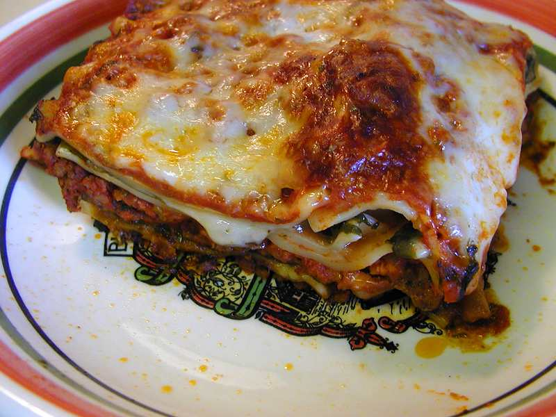 A photo of lasagne